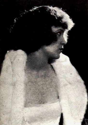 Screenwriter Dorothy Farnum (1900 – 1970), on page 69 of the January 8, 1921 Exhibitors Herald.